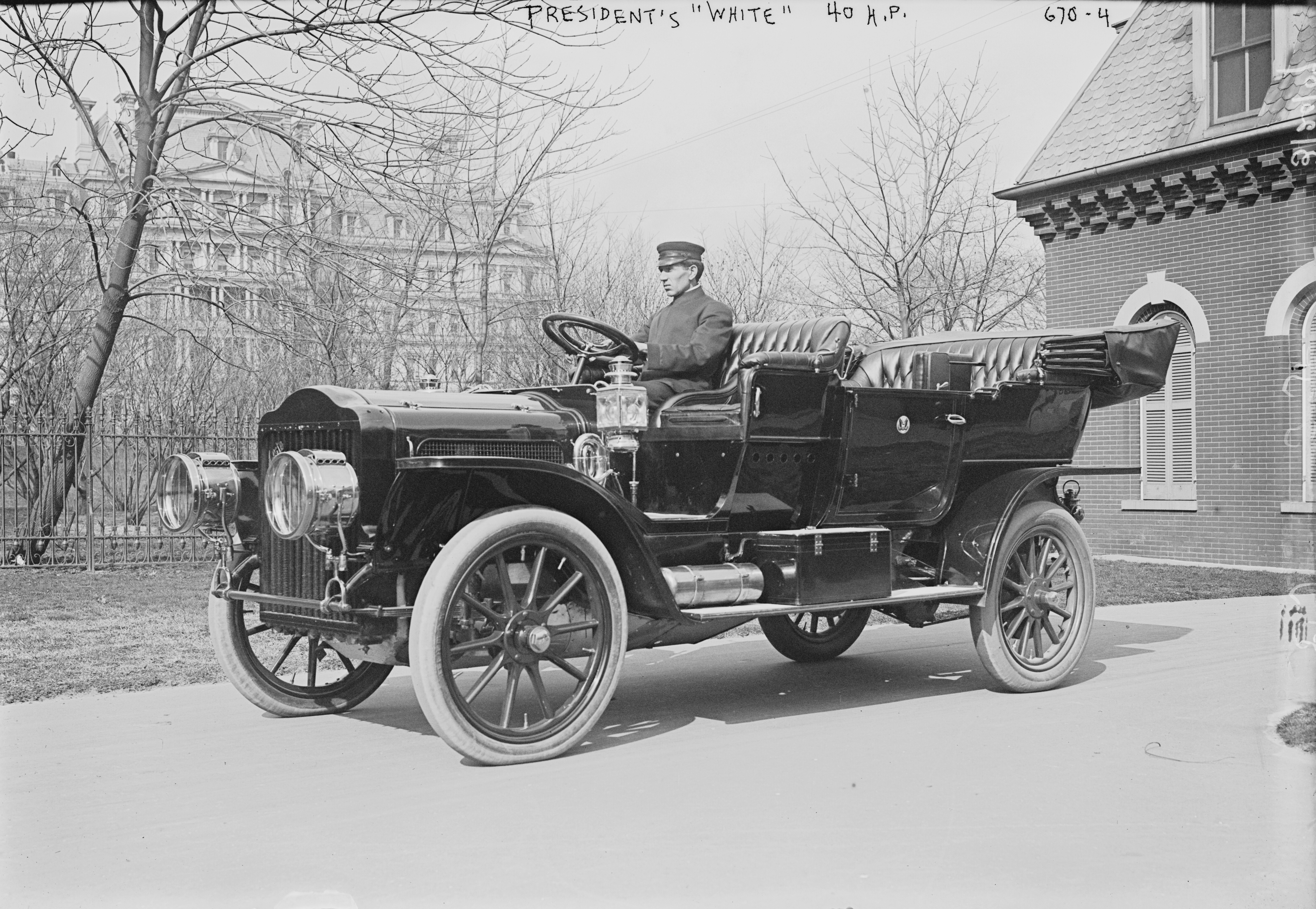 U. S. President William Howard Taft's White Motor Company Model M 40 horse-power steam 7 passenger touring car. Notes: Taft was the first U.S. President to use motorcars exclusively instead of horse drawn transport while in office. He purchased this vehicle for his own use with his own funds between his election and his inaguration. The man seen at the driving wheel in this photo is not identified, but is likely Taft's official driver, George Robinson. Location of the photo is on the White House grounds; in the background is the State Department Building, since renamed the Eisenhower Executive Office Building. discussion with references to period press publications. Auto can also be seen in use in this view:File:WilliamHTaftAutomobile.jpg